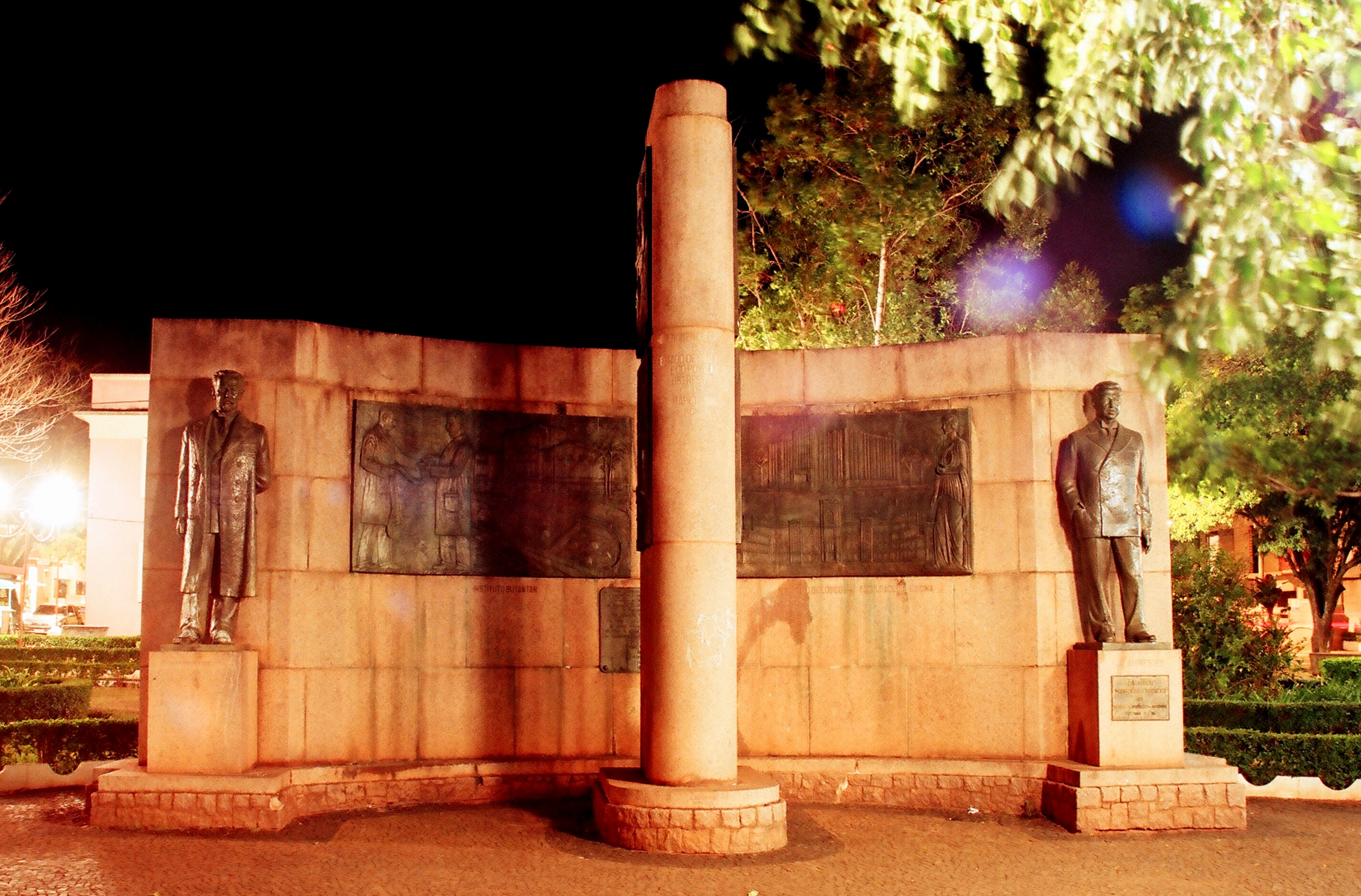 Monumento ao Tropeiro, at Fernando Prestes Square, in Itapetininga, São Paulo, Brazil.